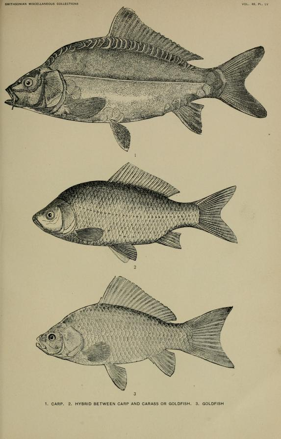 Title: Smithsonian miscellaneous collections Year: 1862 (1860s) Authors: Smithsonian Institution Subjects: Science Publisher: Washington : Smithsonian Institution Text Appearing Before Image: 1. CARP. 2. HYBRID BETWEEN CARP AND CARASS OR GOLDFISH. 3. GOLDFISH SMITHSONIAN MISCELLANEOUS COLLECTIONS VOL. 48, PL. LVI Text Appearing After Image: 1. TENCH. 2. BARBEL. 3. GUDGEON. 4. MINNOW. (After Meckel and Kner.) SMITHSONIAN MISCELLANEOUS COLLECTIONS VOL. 48, PL. LVII